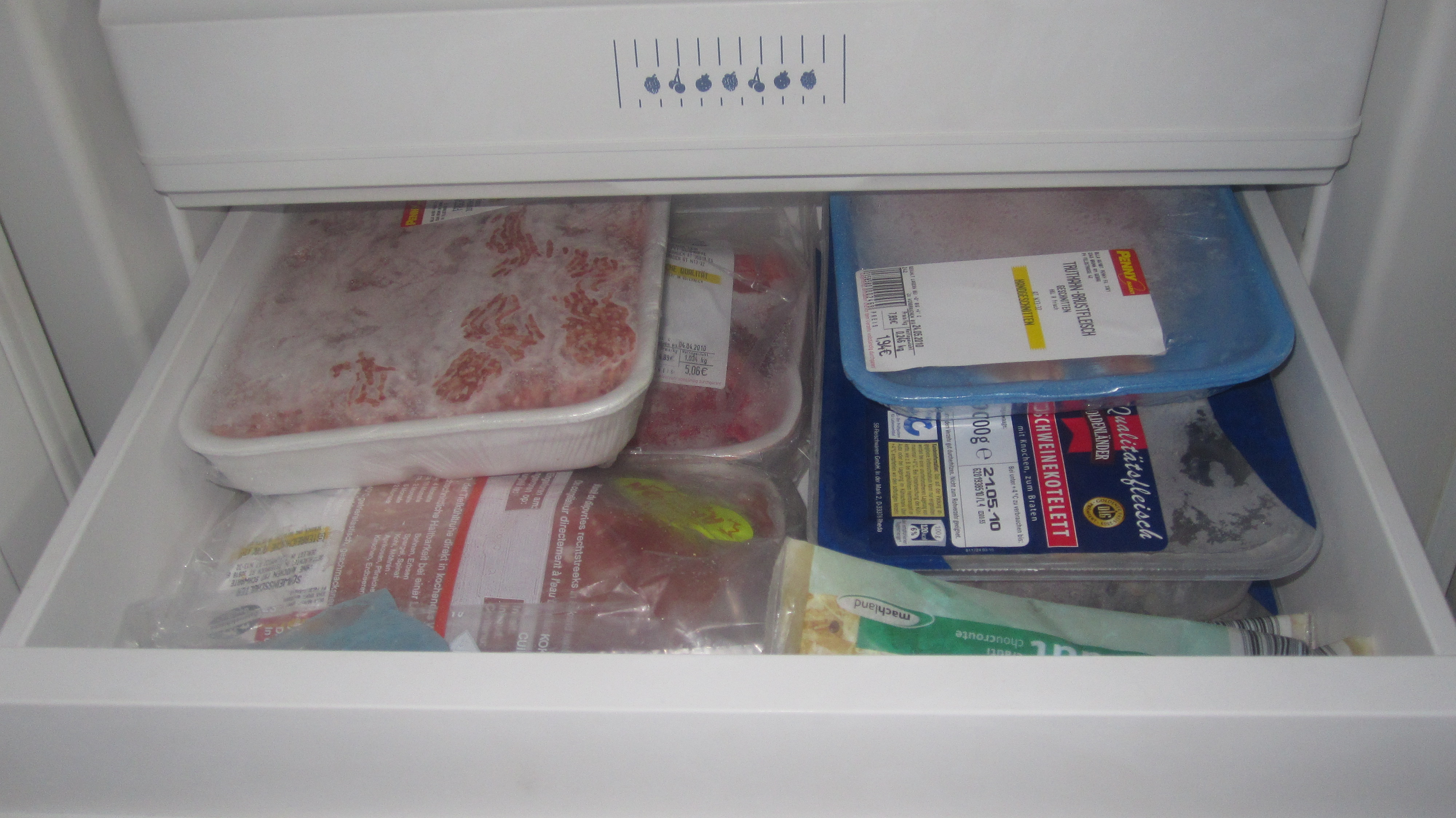 Freezer drawer full of meat products.